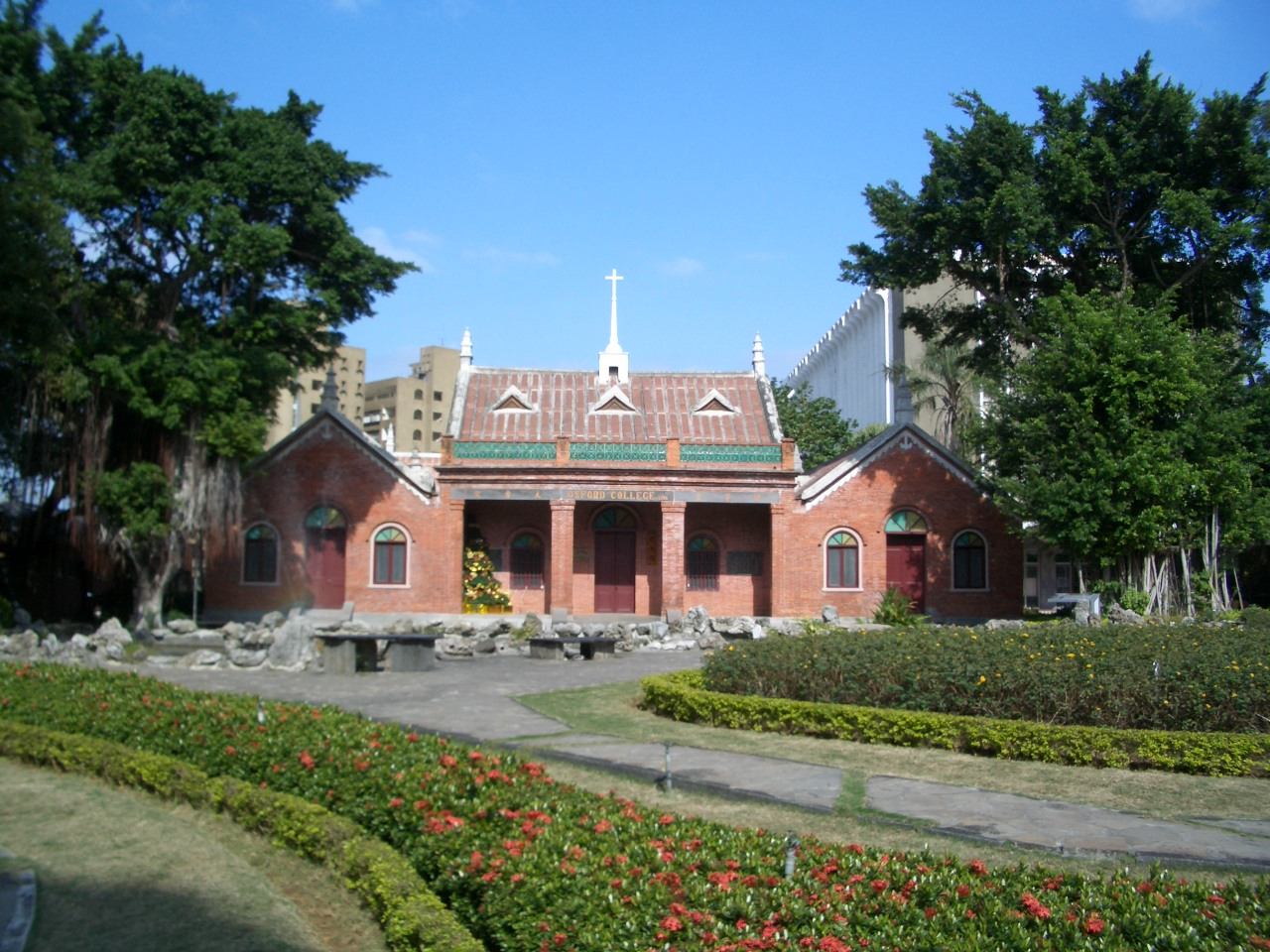 Oxford College, Aletheia University.